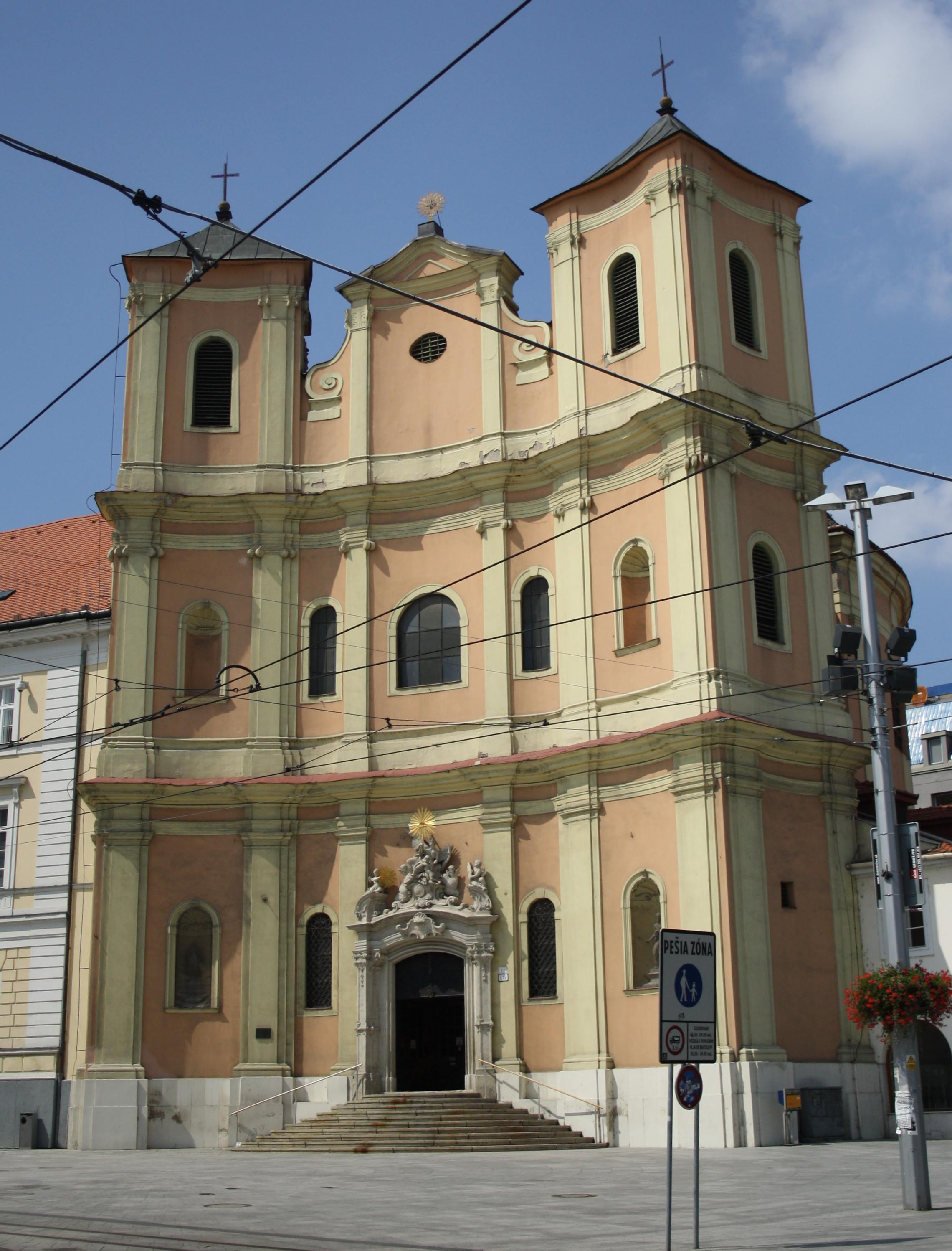 Church of saints John from Matha and Felix frorm Valois in Bratislava.